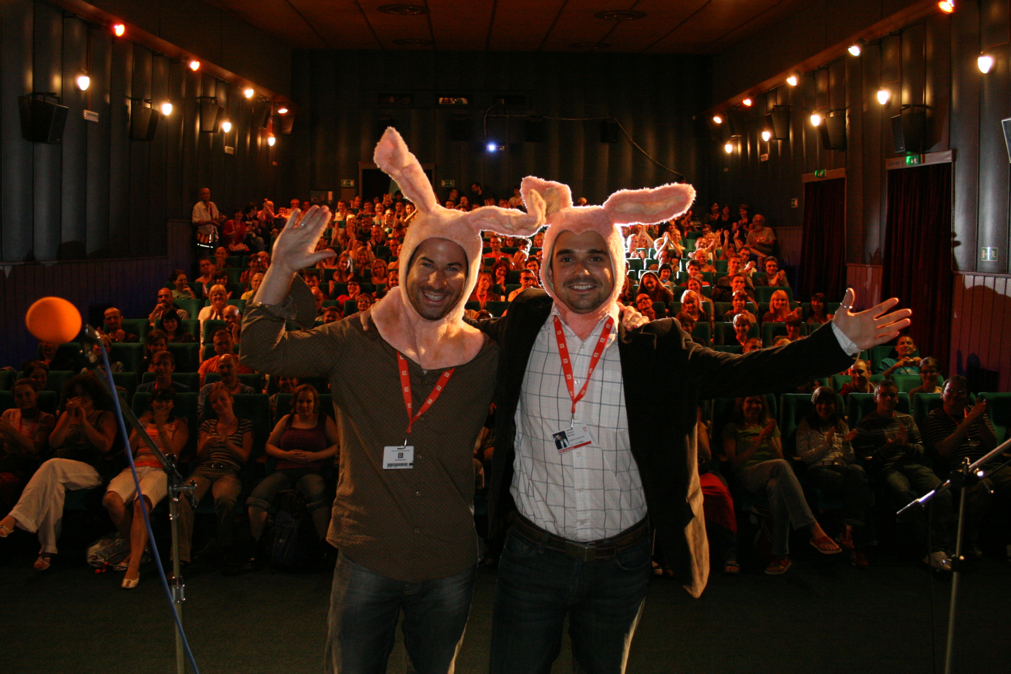 Director Matthiew Klinck and actor/writer Thomas Michael introduce their film Hank and Mike at 43rd Karlovy Vary International Film Festival